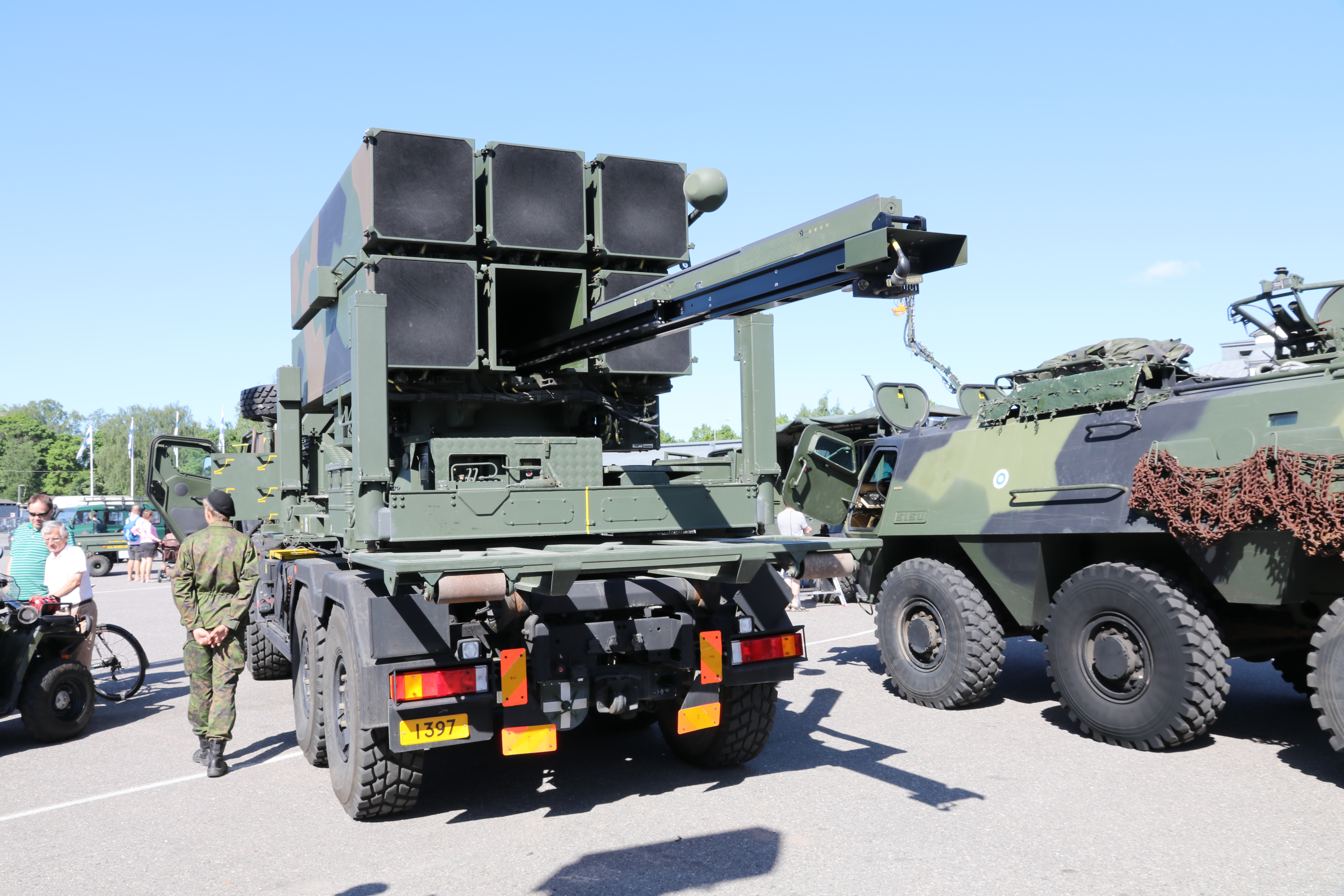 NASAMS II anti-aircraft missile launcher on Sisu E13TP vehicle. Photographed in 2016 Finnish defence forces flag day equipment exhibition in Turku Forum Marinum.